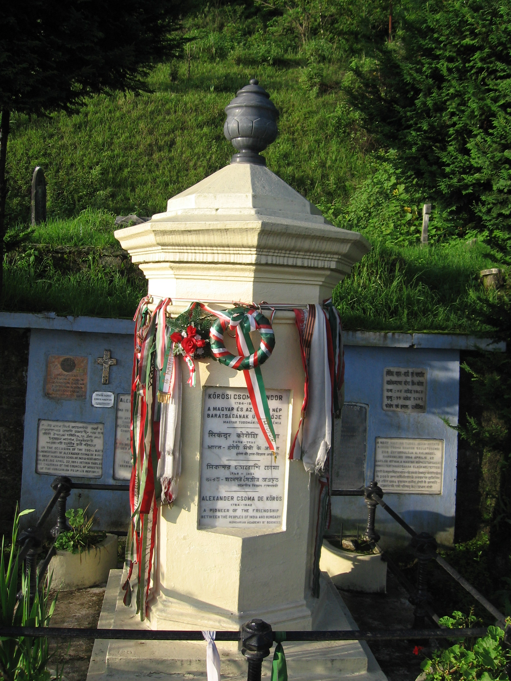 Over the tomb of Alexander Csoma de Koros, in a cemetery of Darjeeling, has been erected this monument, often garlanded with khatas.